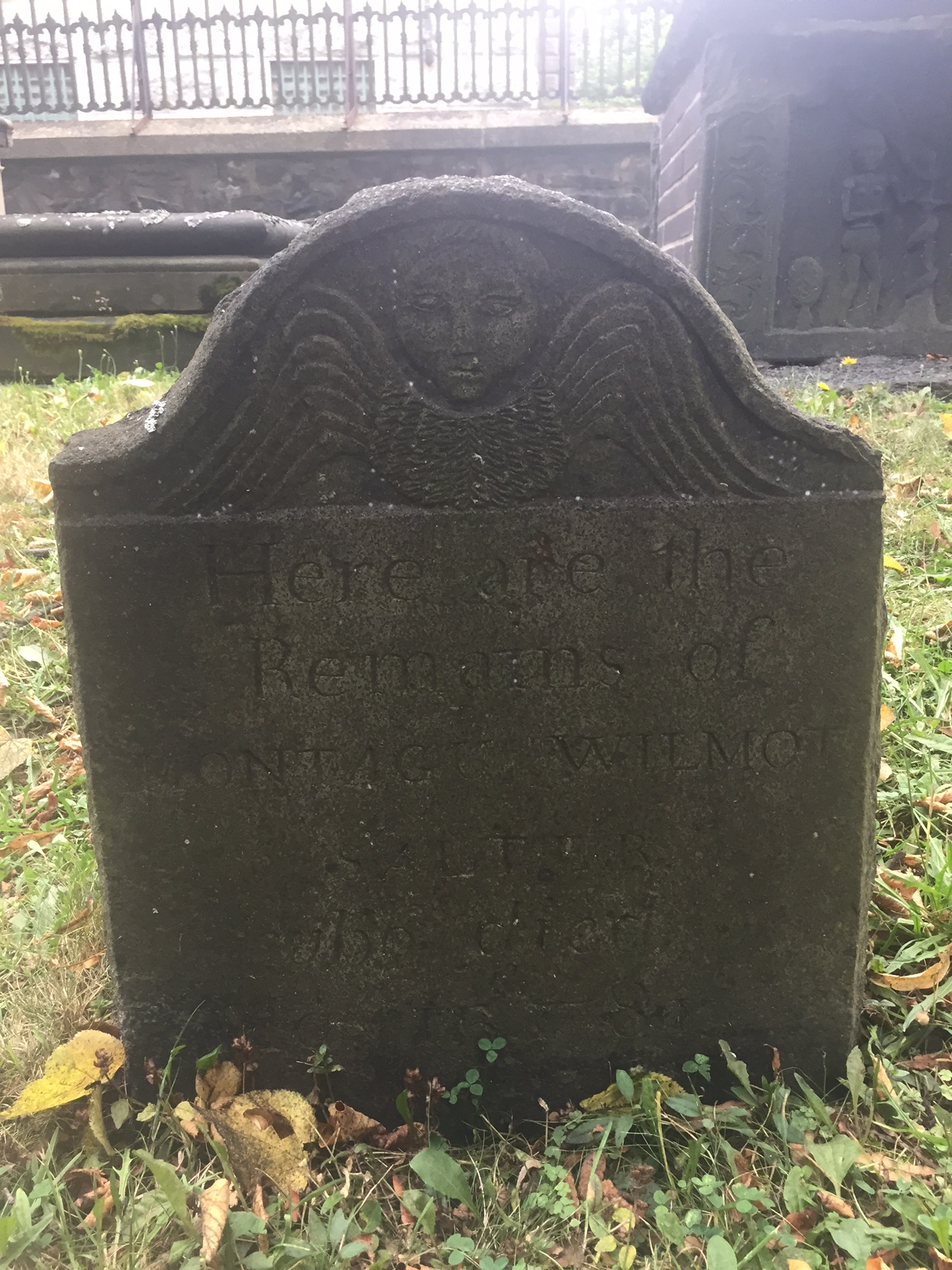 Montagu Wilmot Salter, d. 1781, Old Burying Ground, Halifax, Nova Scotia (file labeled wrong)